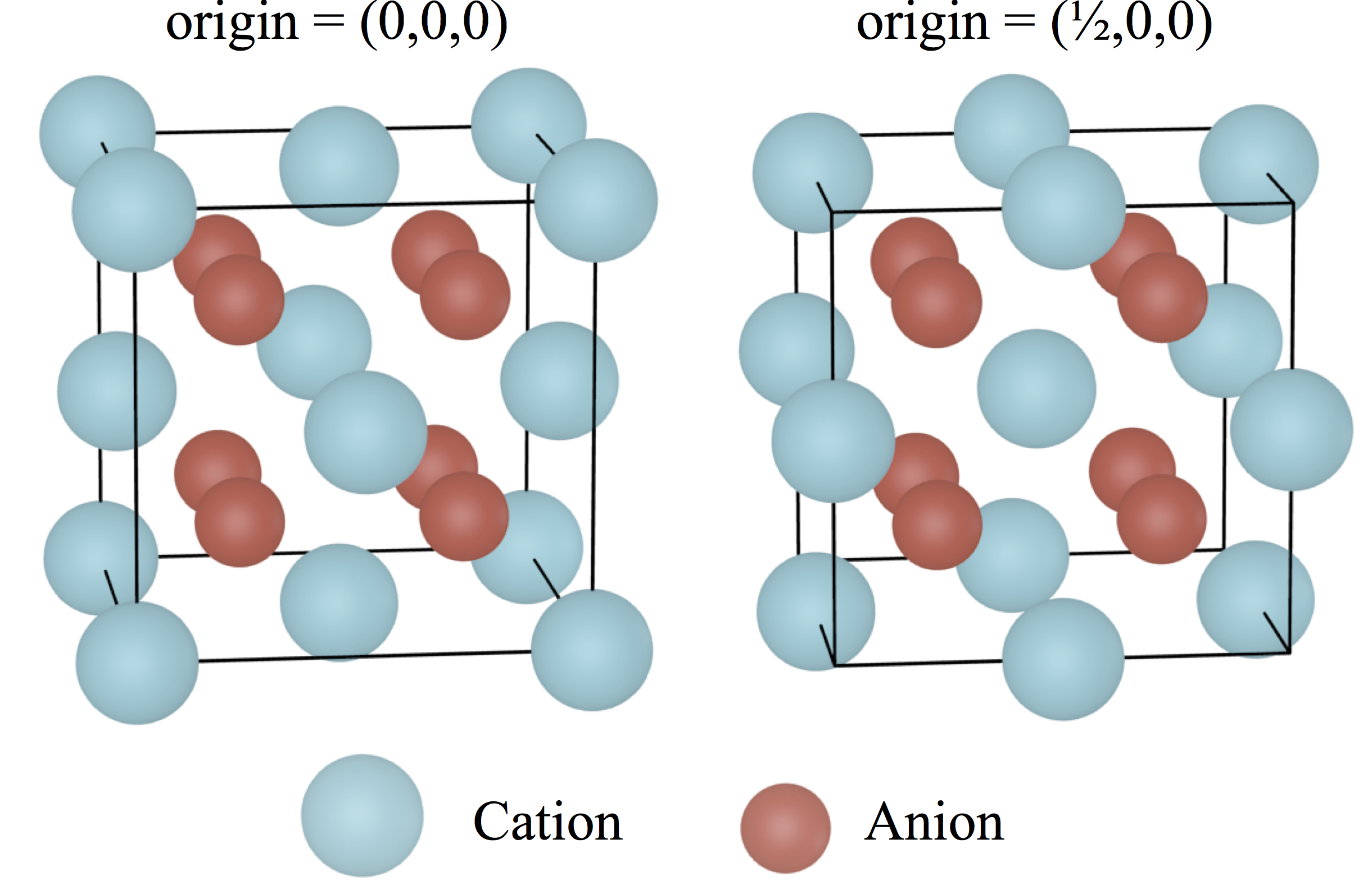 Unit cells of Fluorite structure with two different origins.